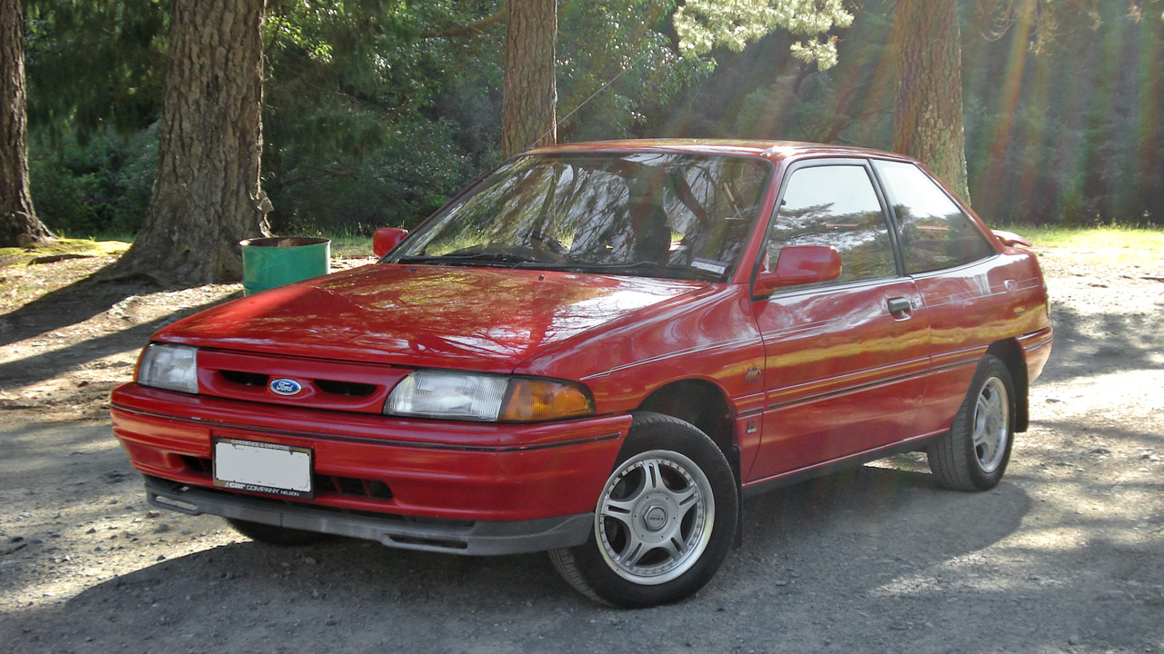 1993 Ford Laser (KH) S 3-door hatchback.